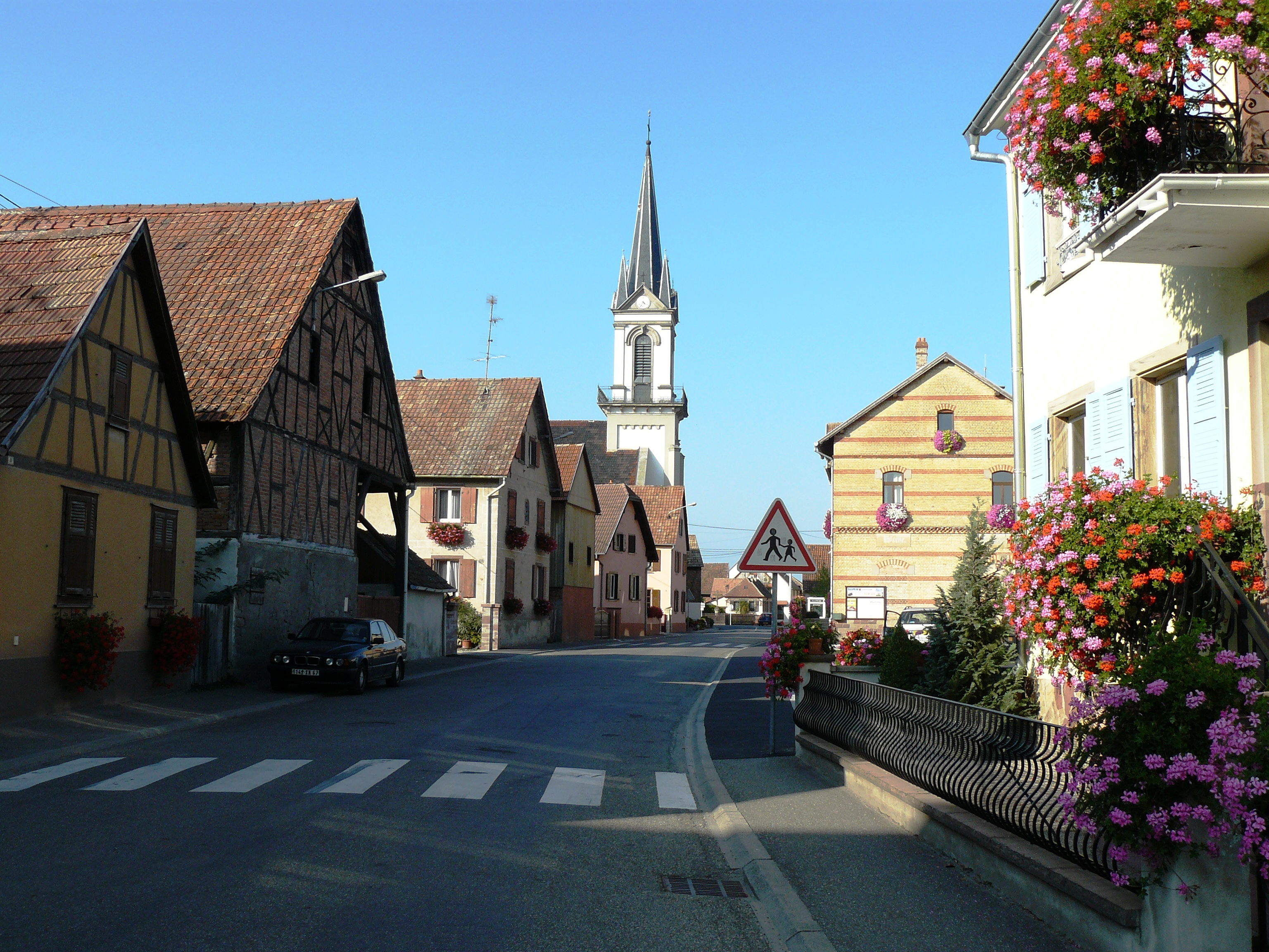 The main street of Mussig's village